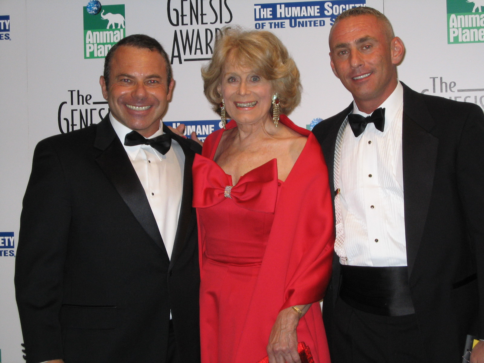 Gretchen Wyler surrounded by Humane Society suppoters Kevin & Don Norte at the 20th Annual Genesis Awards in March of 2006. Messrs. Norte were founding meembers of the Arc Trust and helped the organization to gain visiability through the legislature to pass laws that posed penalties on individuals engaged in animal cruelty. The most promenient legislation passed was Prop 2, which called for the elimination of cages and inhumane conditions in farm live stock.